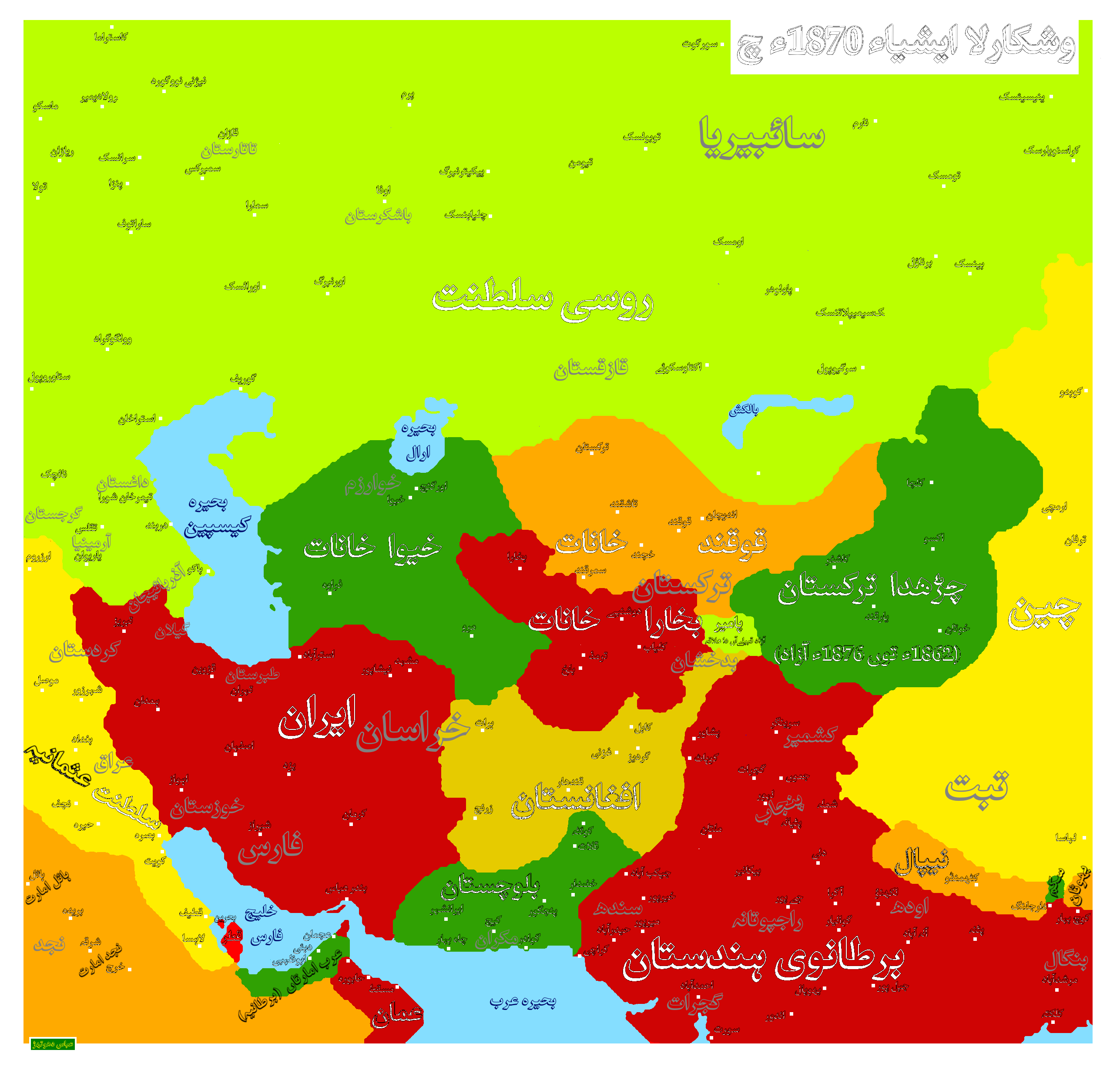 1870 Map of central asia in Punjabi.